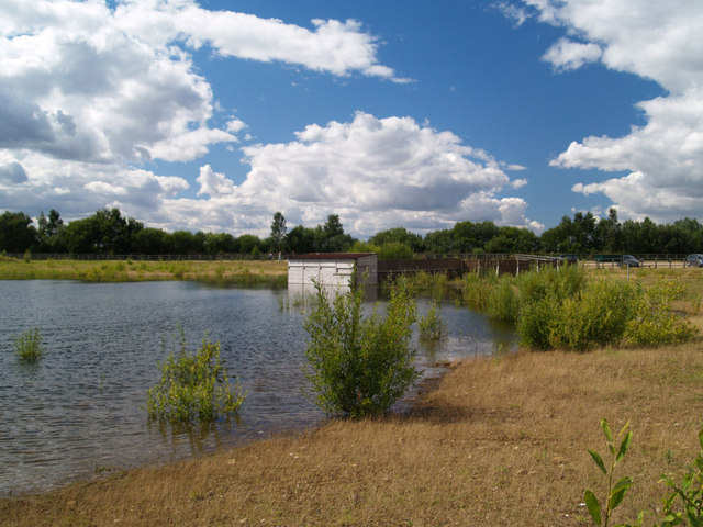 Bird watching hide from lake side. This seems to be a new lake and nature reserve.